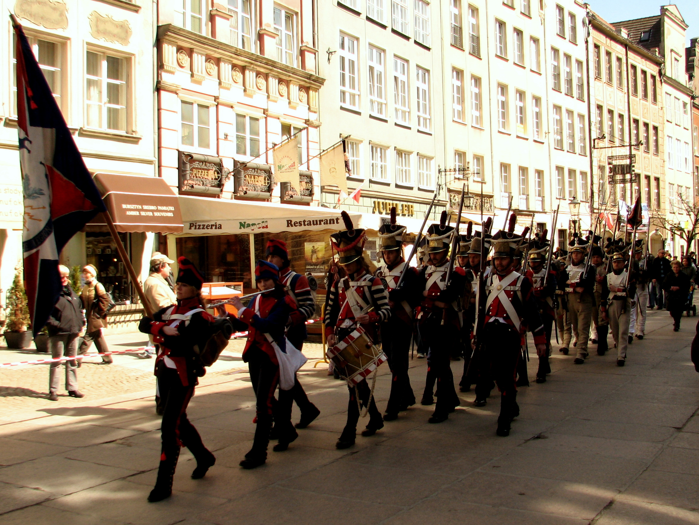 Reenactment of the entry of Napoleon to Gdańsk after siege.